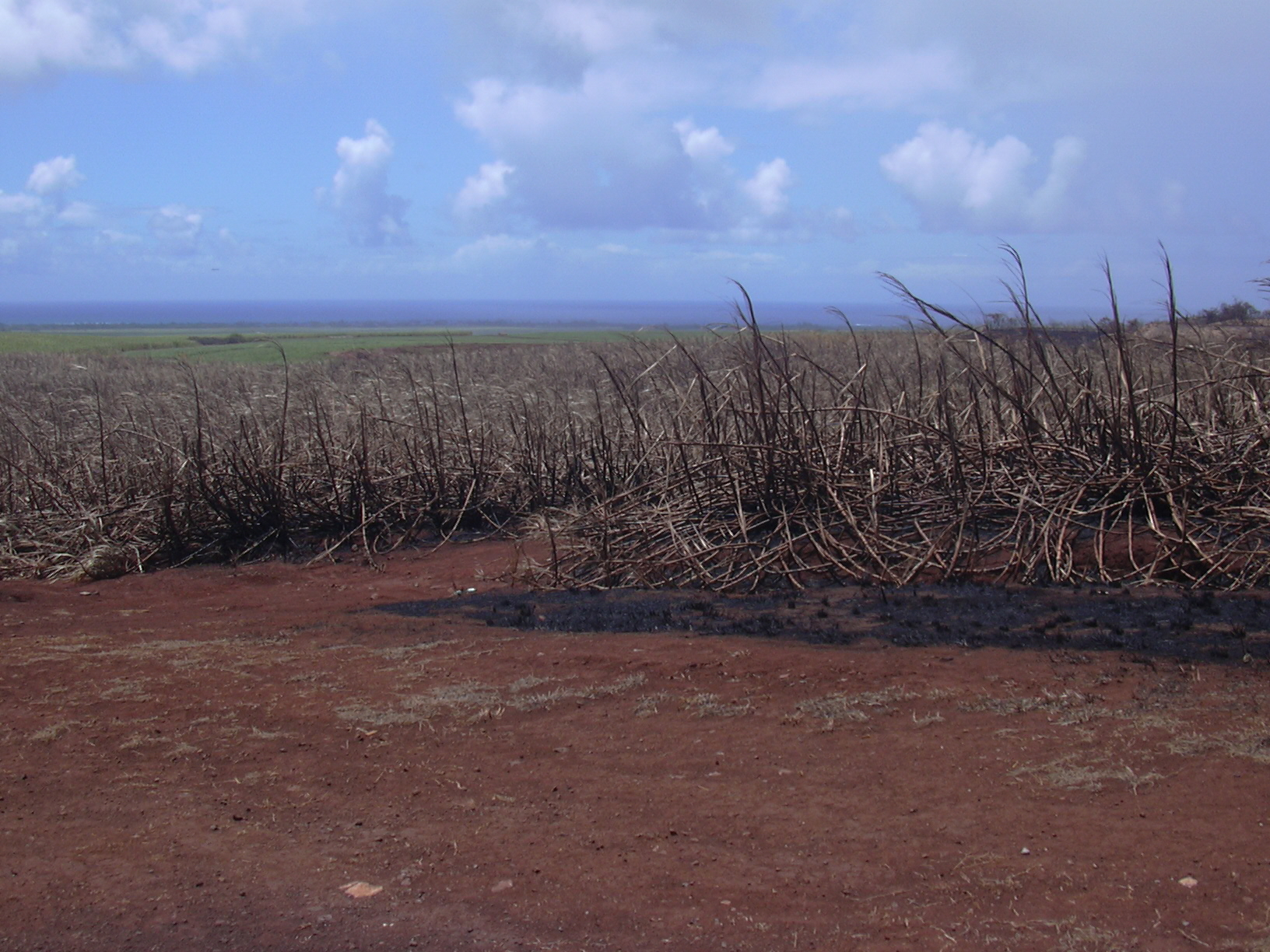 Saccharum officinarum (burnt). Location: Maui, Haleakala Hwy